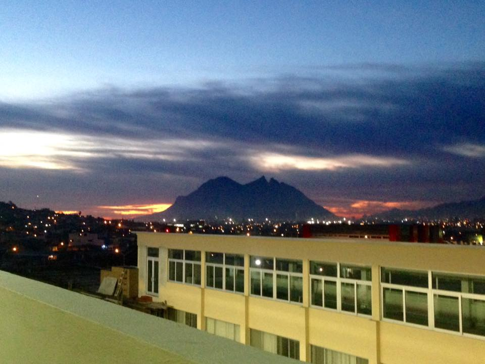 neurociencias unez